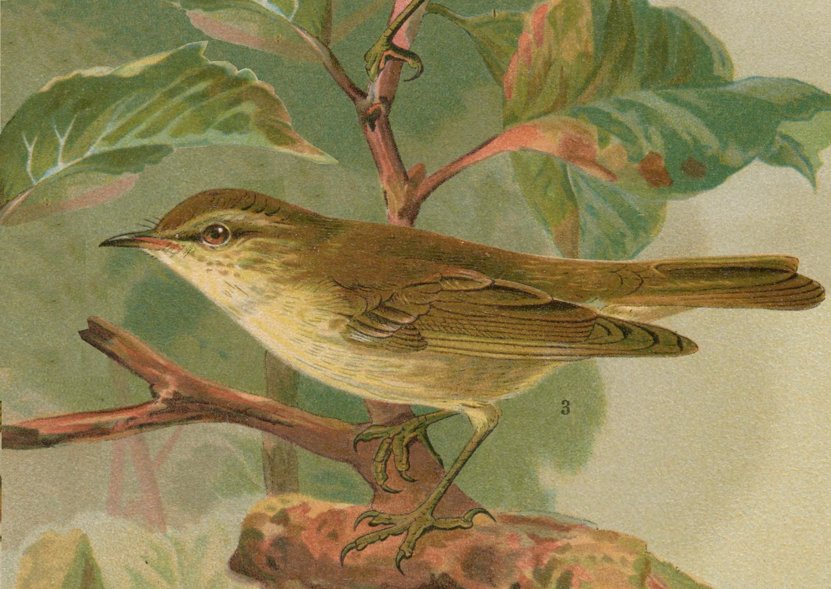 Arctic Warbler Phylloscopus borealis